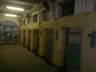 A photo of the interior of one of the Halls of Hong Kong's old Victoria Prison. Taken 12/1/2007